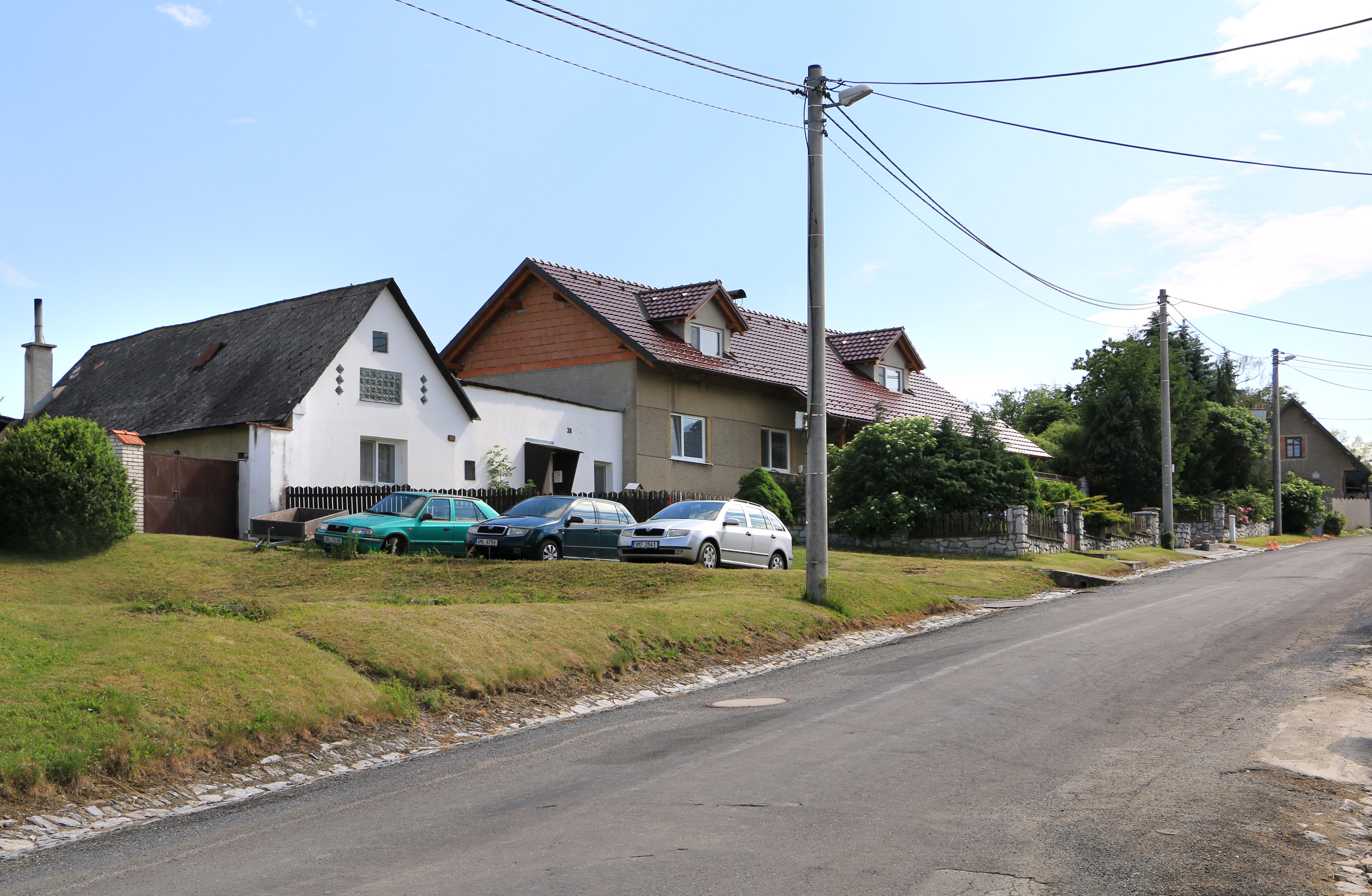 Main street in Hradečná, part of Bílá Lhota, Czech Republic.